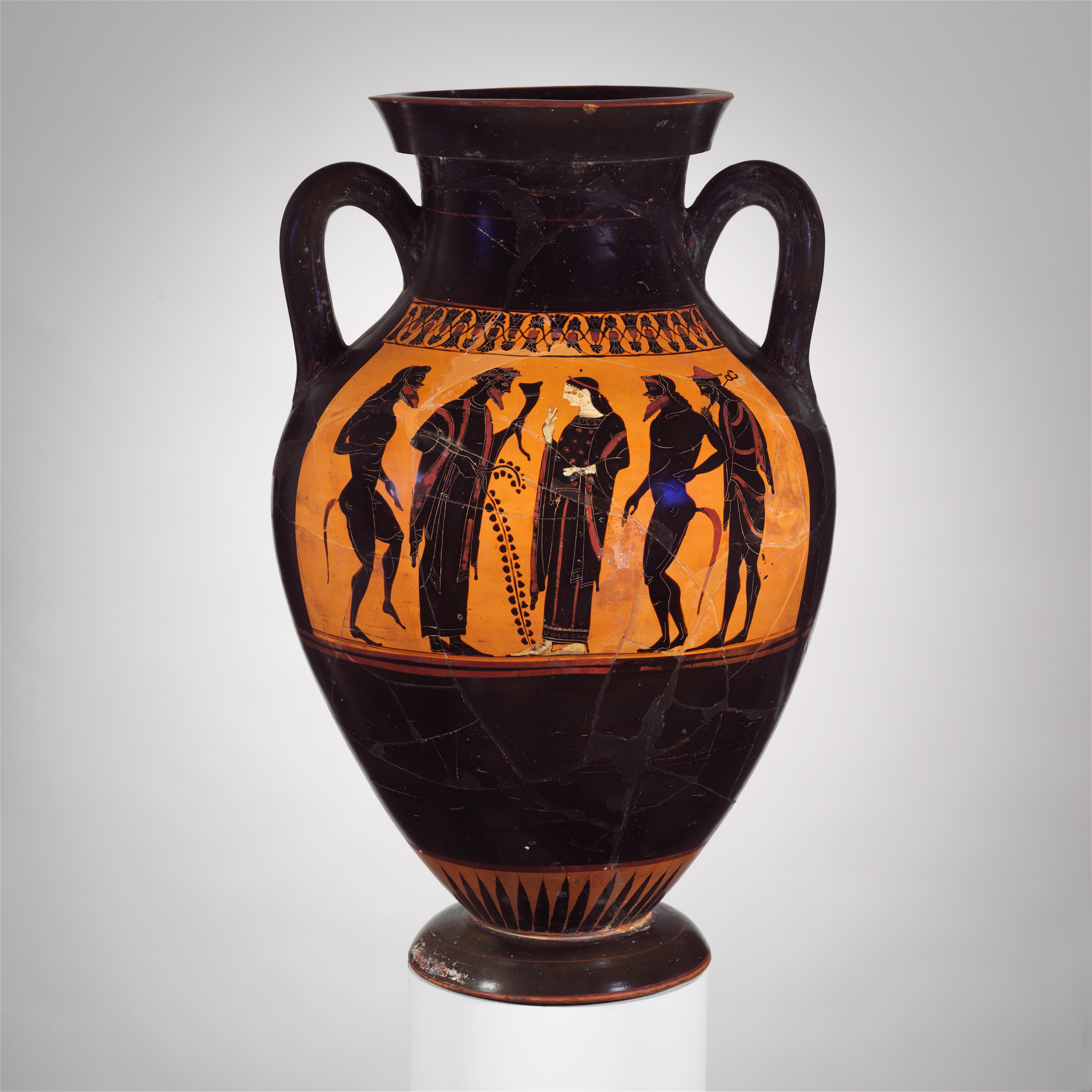 Greek, Attic; Amphora, Type B; Vases; Obverse, Athena and Herakles in a chariot; Reverse, Dionysos and Ariadne with satyrs and Hermes